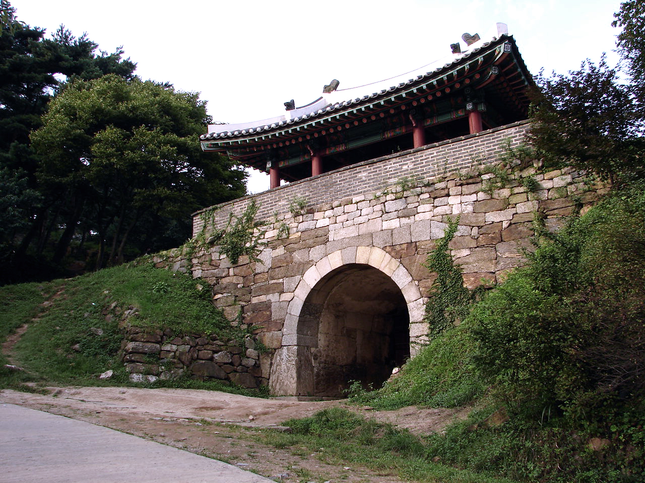 Namhan Sanseong North Gate